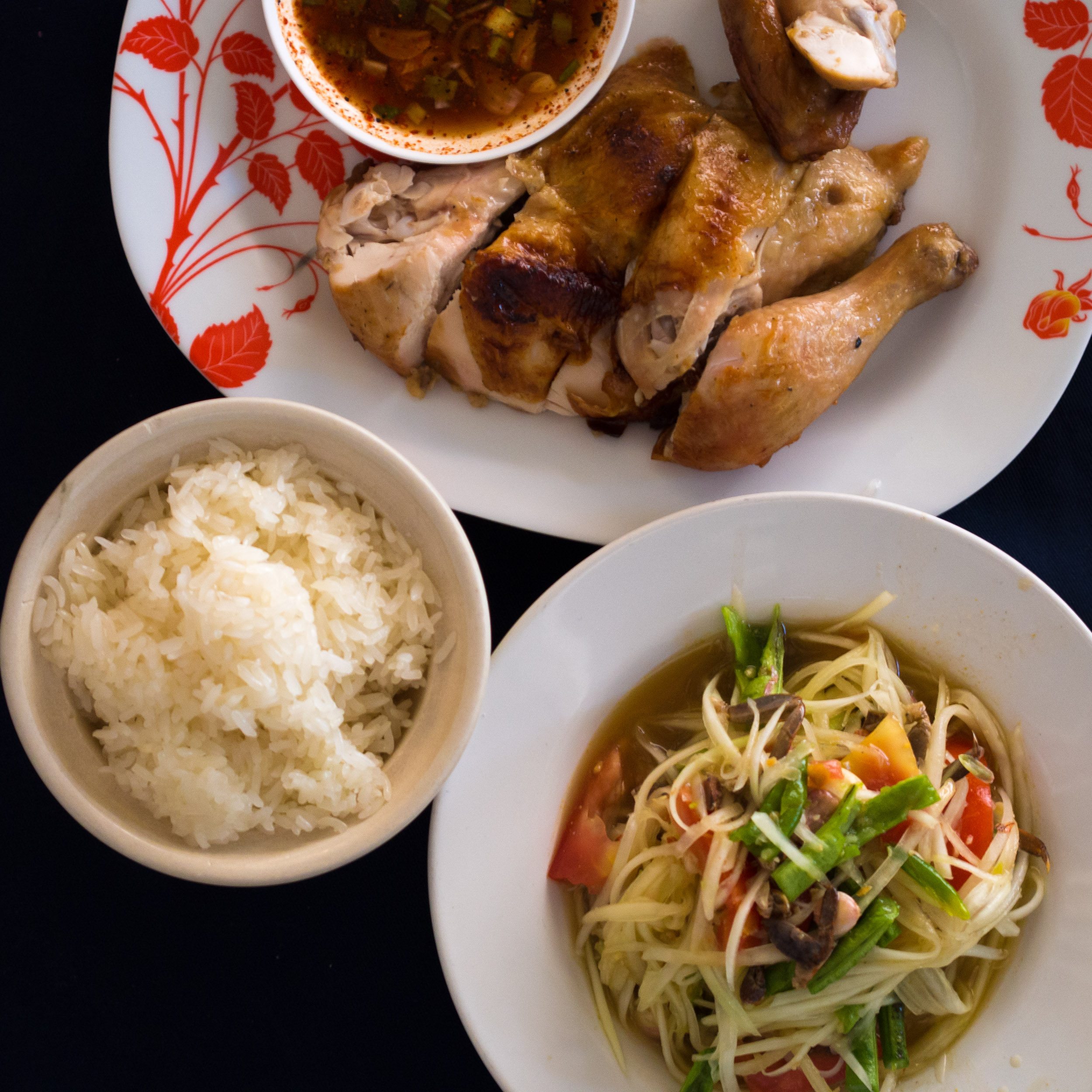 Som tam, khao niao, kai yang (Thai script: ส้มตำ ข้าวเหนียว ไก่ย่าง): papaya salad, sticky rice, grilled chicken. A famous combination, that originated in the Isan area of Thailand, but now eaten throughout the whole of Thailand.